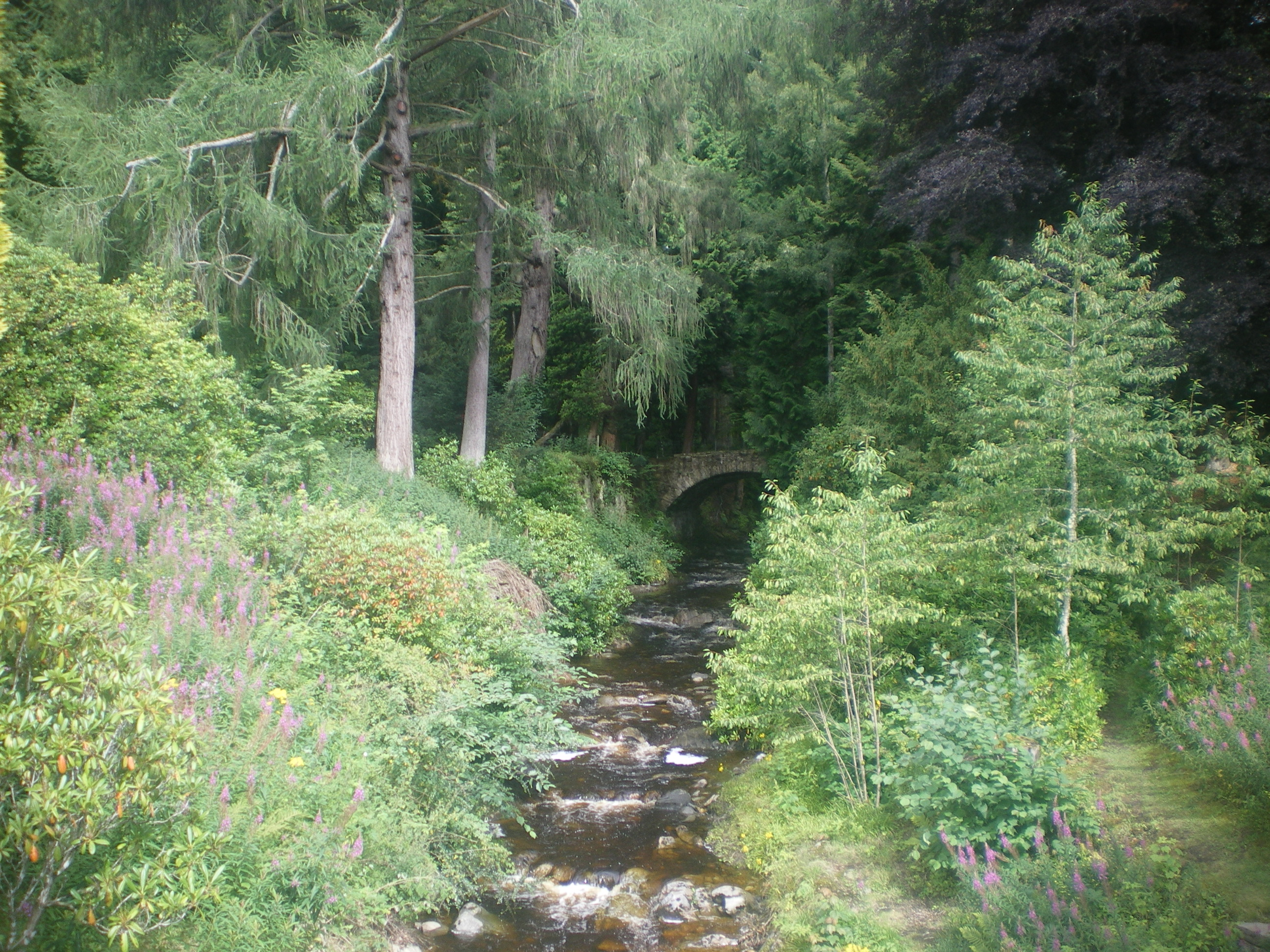 Landscape near Blair Castle.